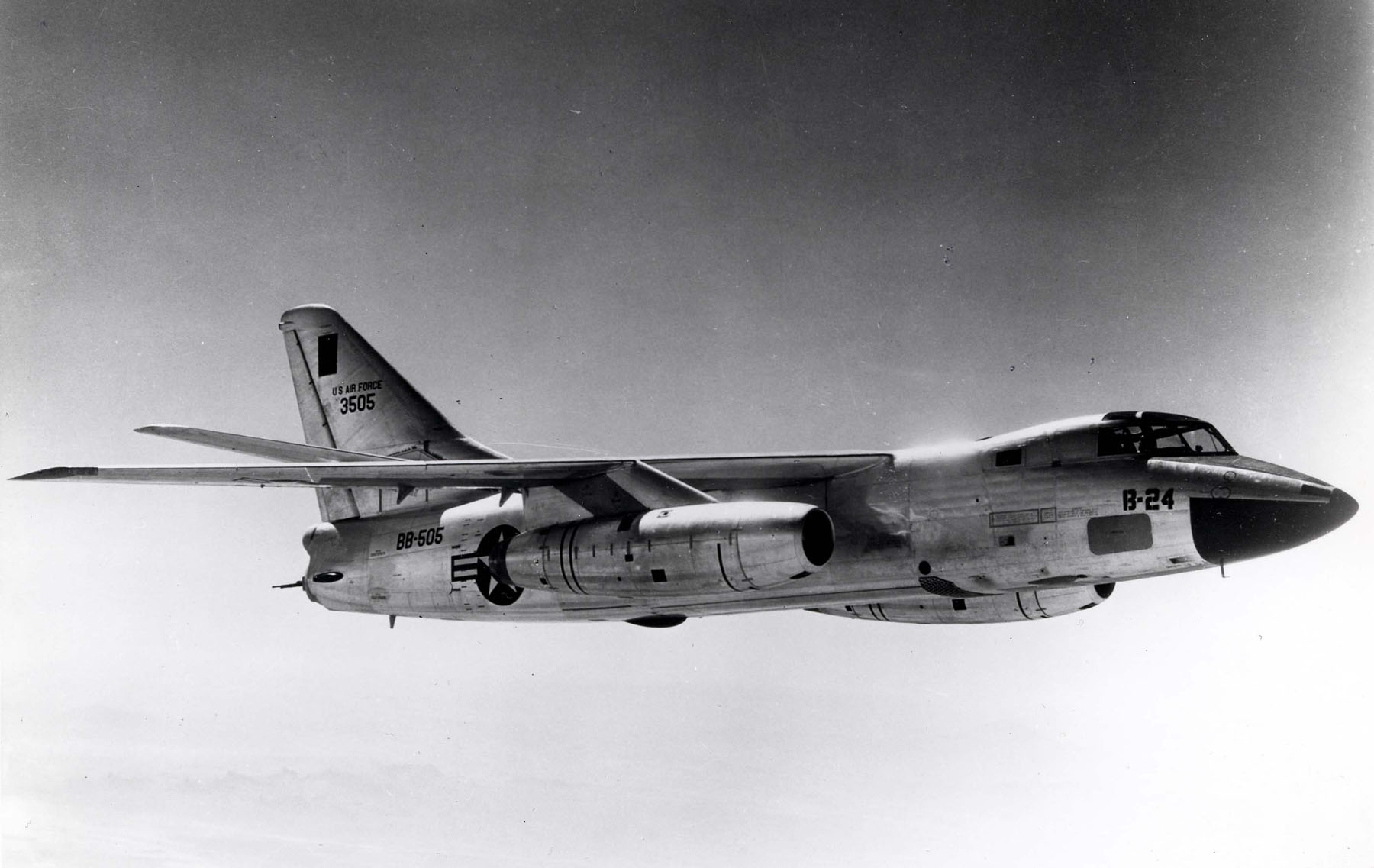 Douglas B-66B Destroyer in flight (SN 53-505)